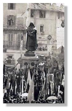 State of Giordano Bruno, Campo del Fiori, Rome. Sculptor was Ettore Ferrari (1845-1929)